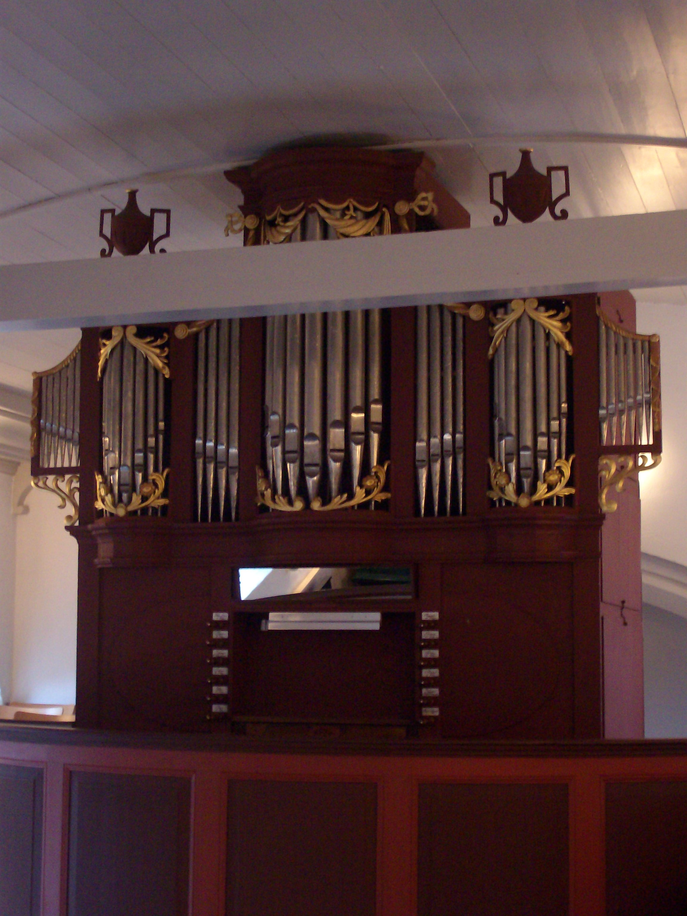 Orgel in Völlen, Westoverledingen, Ostfriesland